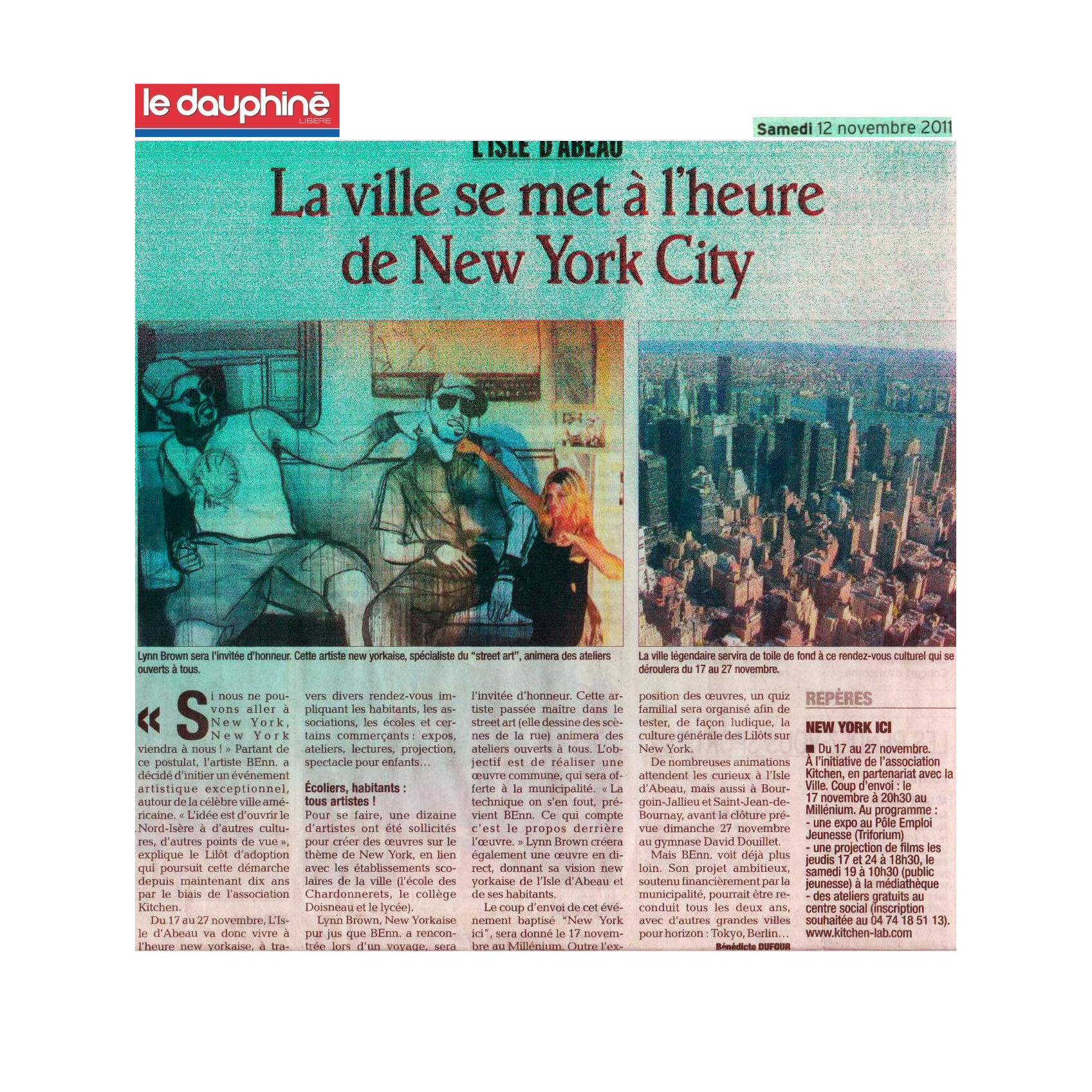 Le Dauphine, Newspaper Article, "La ville se met a l'heure de New York City", NYC in France Exhibition, L'Isle D'Abeau, France, Nov 2011